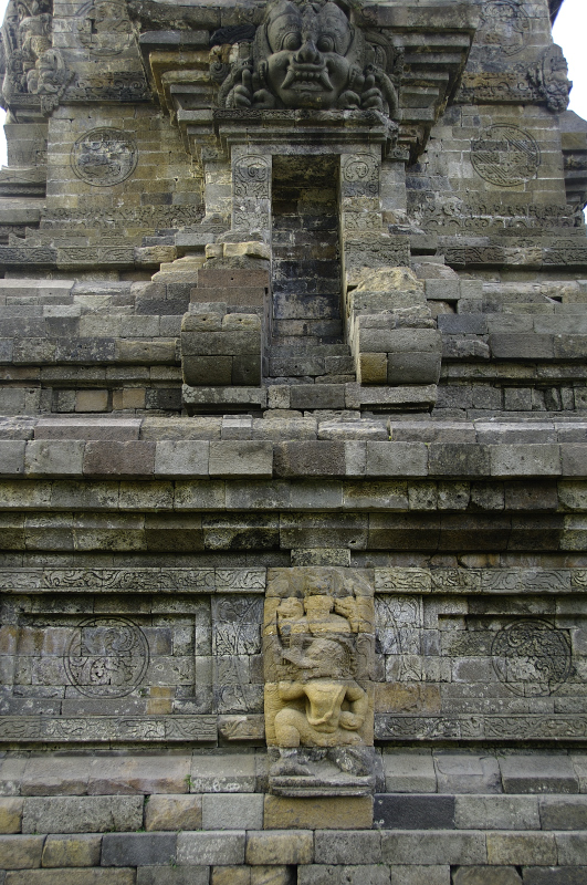 Candi Kidal, Tumpang, Jawa Timur